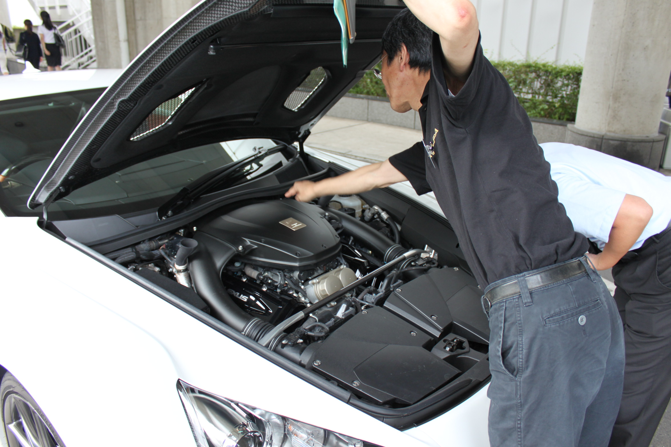 LFA Deputy Chief Engineer Chiharu Tamura explains Lexus LFA engine. By Bertel Schmitt